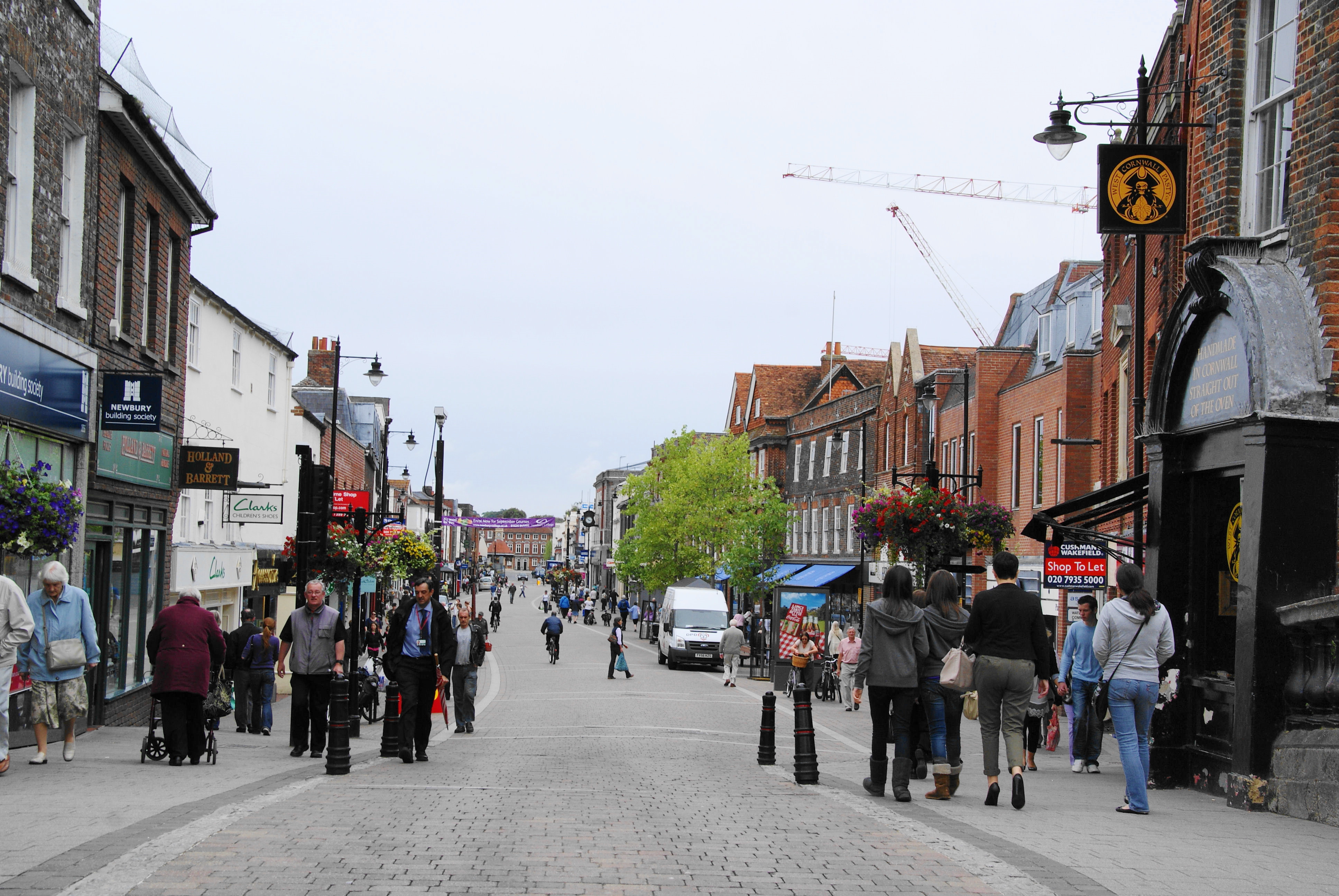 Northbrook Street, the high street, now pedestrianised. View North from the bridge.